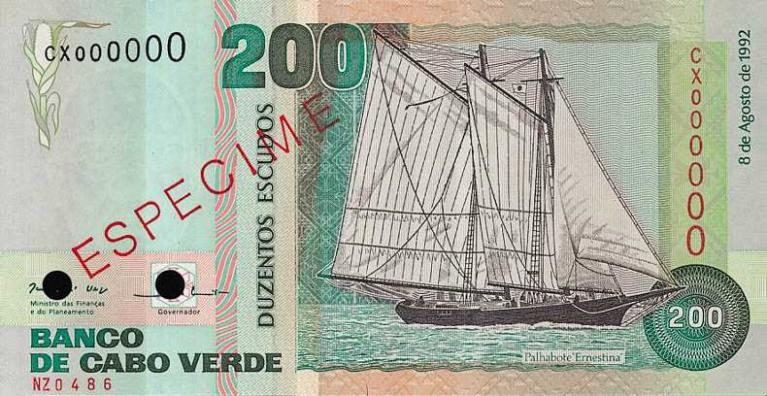 Cape-verdean 1992 200CVE note - front